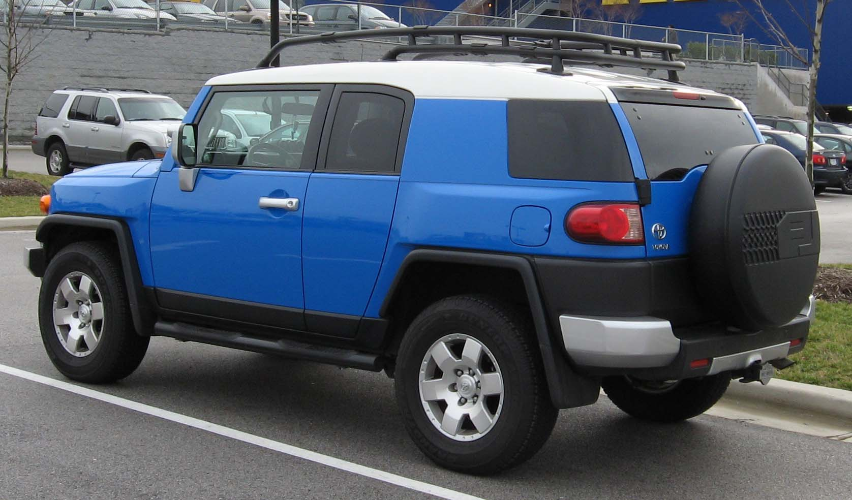 2007 Toyota FJ Cruiser photographed in USA.